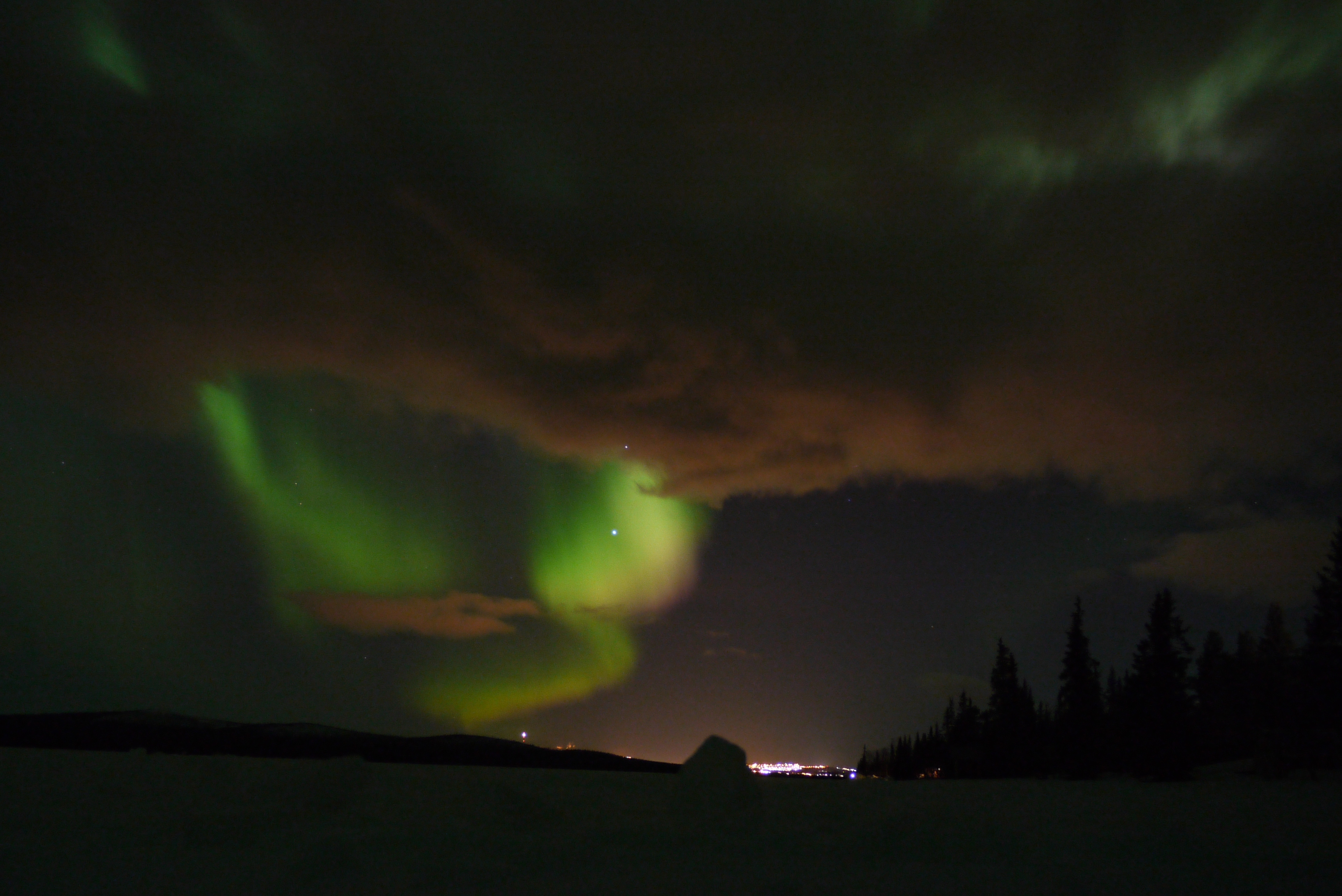 This photo was taken in Kiruna of Sweden.